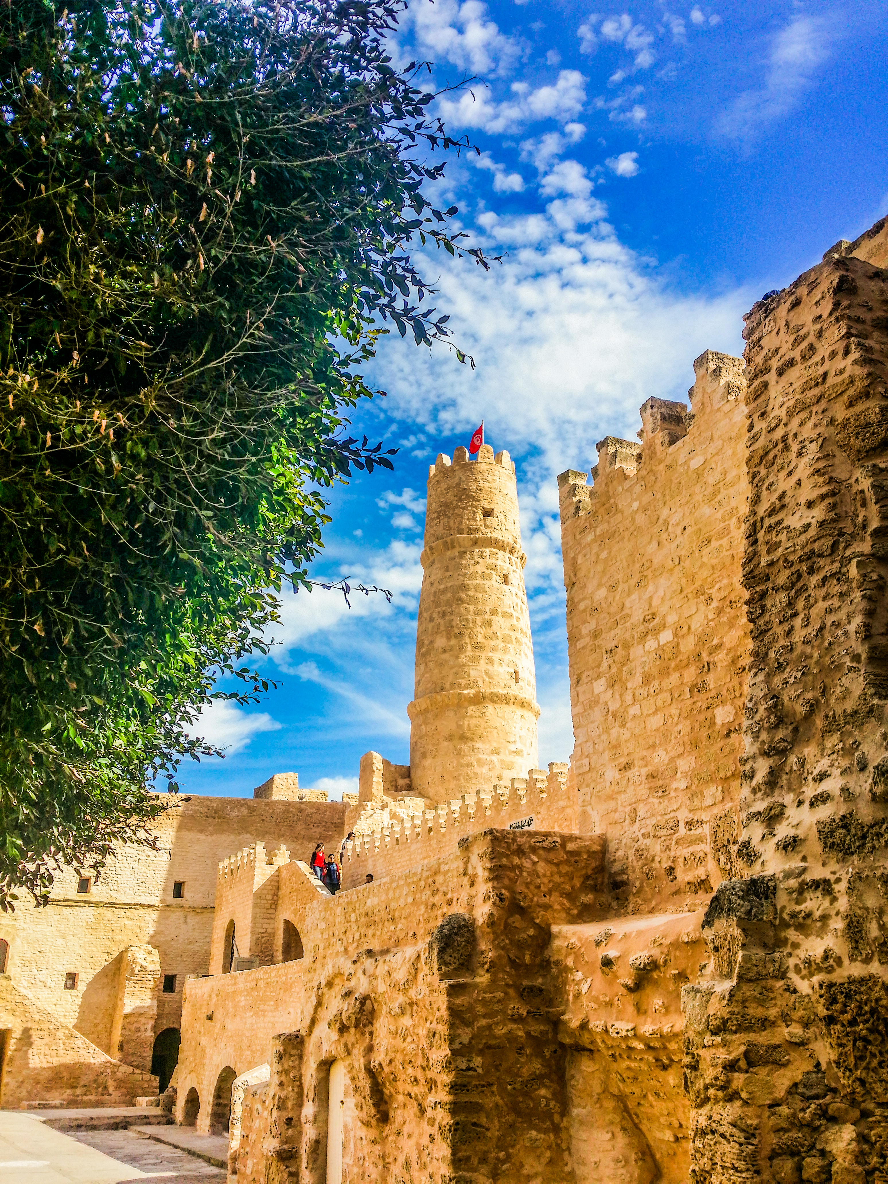 Ribat of Monastir